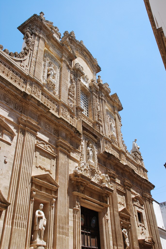 Sant'Agata Cathedral - front